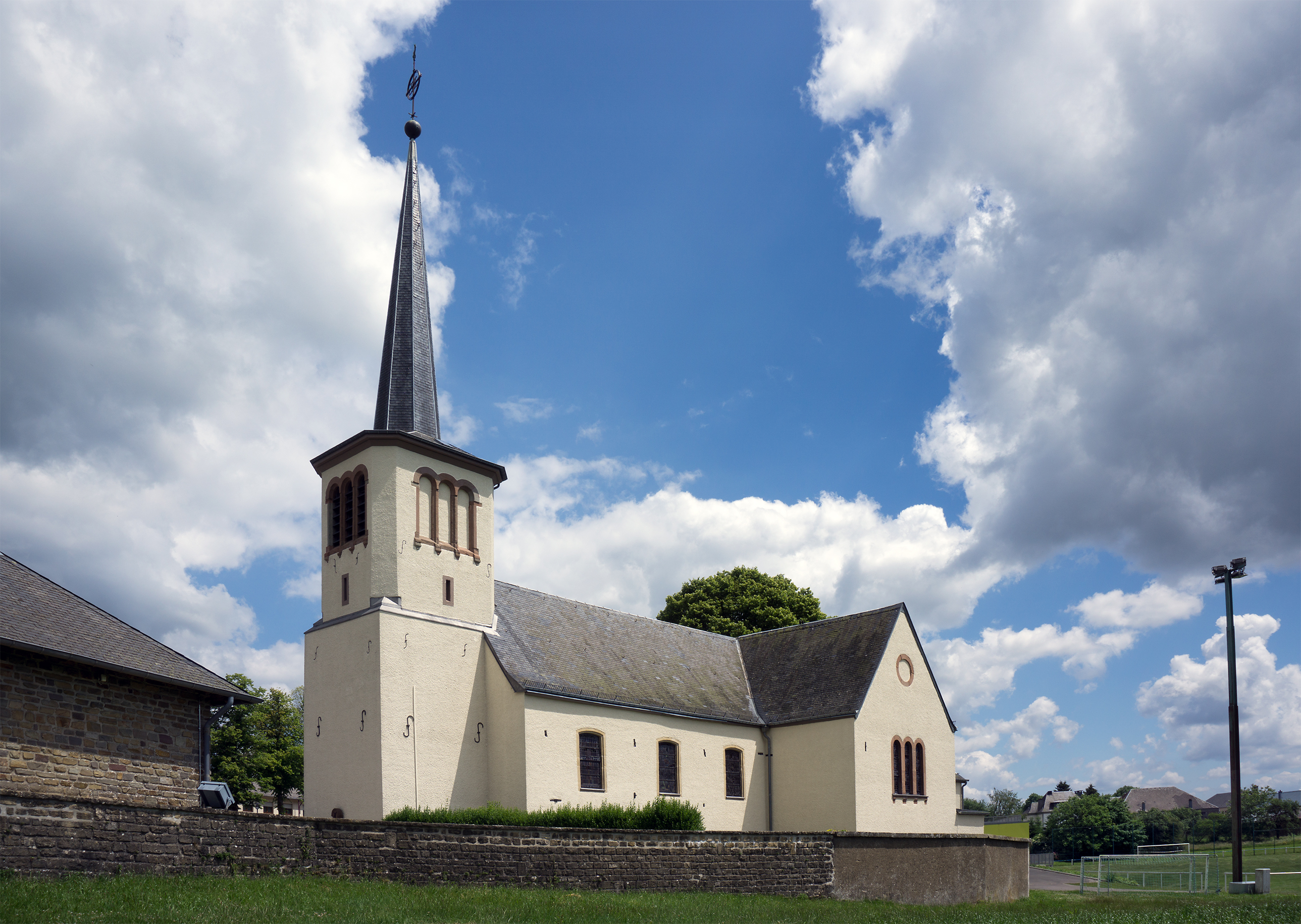 Church of Rambrouch